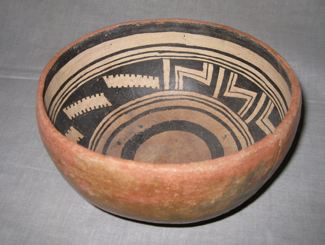 Gila Polychrome bowl from the collections of the Maxwell Museum, University of New Mexico.